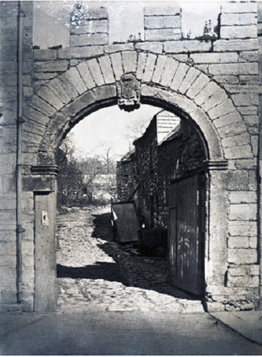 Friary Gate (alias Sparke's Gate), Exeter Street, in the parish of St Jude's, Plymouth, Devon. Photograph by Rugg Monk c1890. An early 18th century rebuild of the original (and apparently dilapidated) 13th century entrance to the Whitefriar's Abbey. Known as Sparke's Gate, after the prominent local Sparke family which resided there for several centuries after the Dissolution of the Monasteries by King Henry VIII.